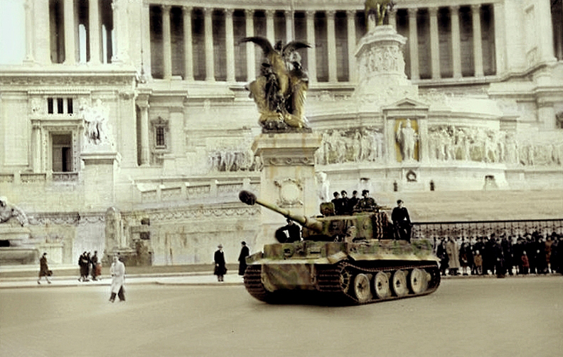 This is a retouched picture, which means that it has been digitally altered from its original version. Modifications: recolored. The original can be viewed here: Bundesarchiv Bild 101I-310-0880-38, Italien, Rom, Tiger I vor Vittoriano.jpg: . Modifications made by Ruffneck88. Italien, Rom, Tiger I vor Vittoriano Photographer EngelArchive description Description provided by the archive when the original description is incomplete or wrong. You can help by reporting errors and typos at Commons:Bundesarchiv/Error reports. Italien.- Panzer VI "Tiger I" vor dem Monumento Vittorio Emmanuele II / Nationaldenkmal Viktor Emanuel II.; PK 699Title Italien, Rom, Tiger I vor Vittoriano Description Information added by Wikimedia users.Carro armato tedesco Tiger I di fronte all'Altare della Patria a Roma, nel febbraio 1944. Schwere Panzer-Abteilung 508 (only Tiger unit that went to Rome)[1]Depicted place RomDate february 1944Collection German Federal Archives Native nameDas BundesarchivLocationKoblenz (headquarters)Coordinates50° 20′ 32.71″ N, 7° 34′ 21.22″ E Established1946Web page control : Q685753 VIAF: 137346469 ISNI: 0000 0004 0555 2728 LCCN: n92025526 NLA: 36455393 Open Library: OL55798A WorldCat institution QS:P195,Q685753Current location Propagandakompanien der Wehrmacht - Heer und Luftwaffe (Bild 101 I)Accession number Bild 101I-310-0880-38 Source This image was provided to Wikimedia Commons by the German Federal Archive (Deutsches Bundesarchiv) as part of a cooperation project. The German Federal Archive guarantees an authentic representation only using the originals (negative and/or positive), resp. the digitalization of the originals as provided by the Digital Image Archive. ↑ Schneider, Tigers in Combat I, map of area of operations. ISBN 9780811731713 Information added by Wikimedia users.Carro armato tedesco Tiger I di fronte all'Altare della Patria a Roma, nel febbraio 1944. Schwere Panzer-Abteilung 508 (only Tiger unit that went to Rome)[1]